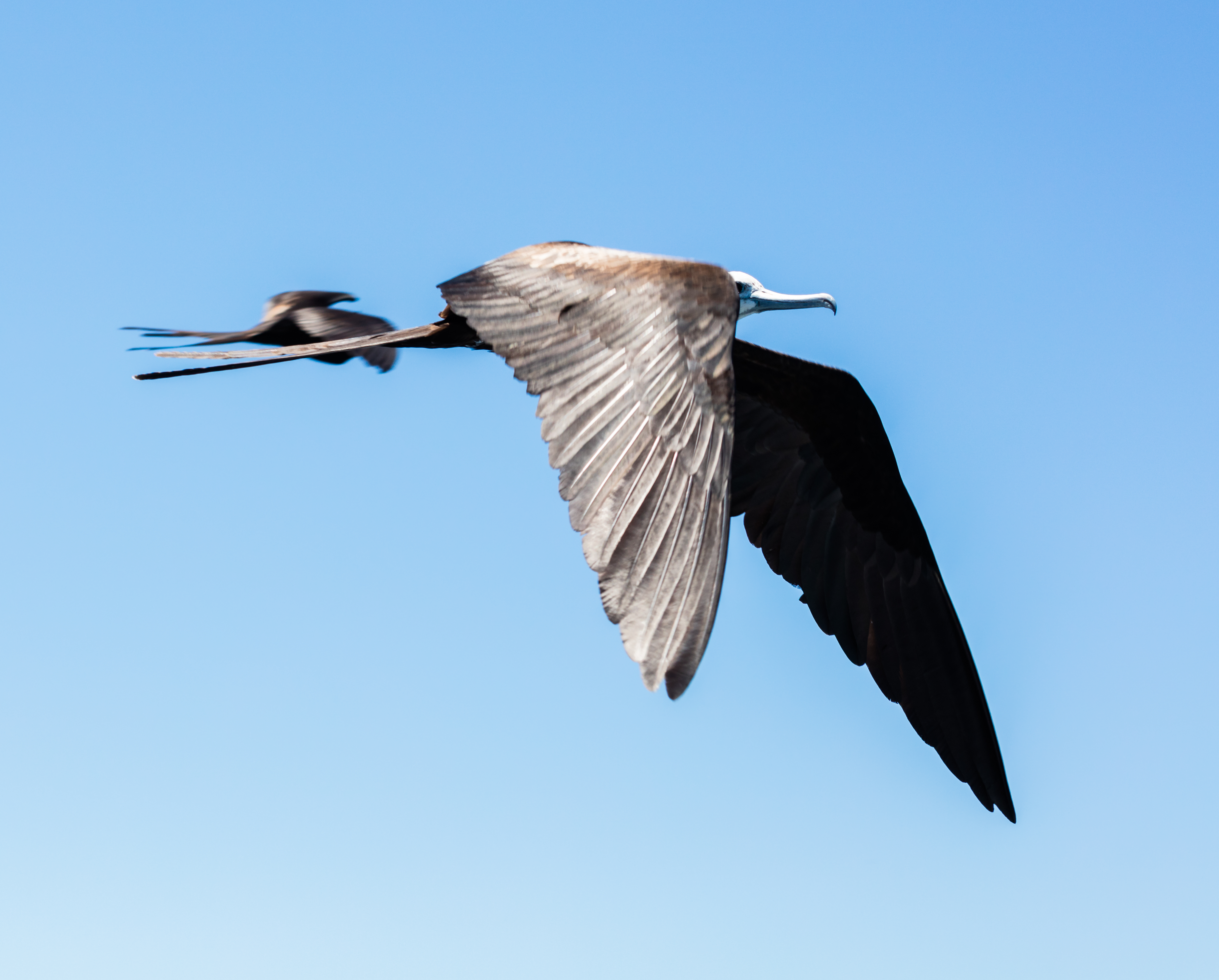 Great frigatebird (Fregata minor), San Cristobal island, Galapagos islands, Ecuador